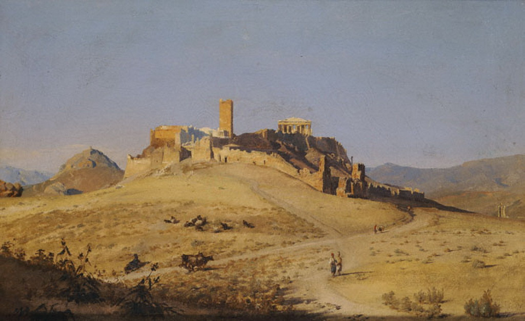 Acropolis 1860